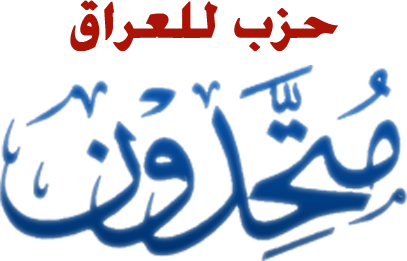 Logo of the Muttahidoon political alliance in Iraq